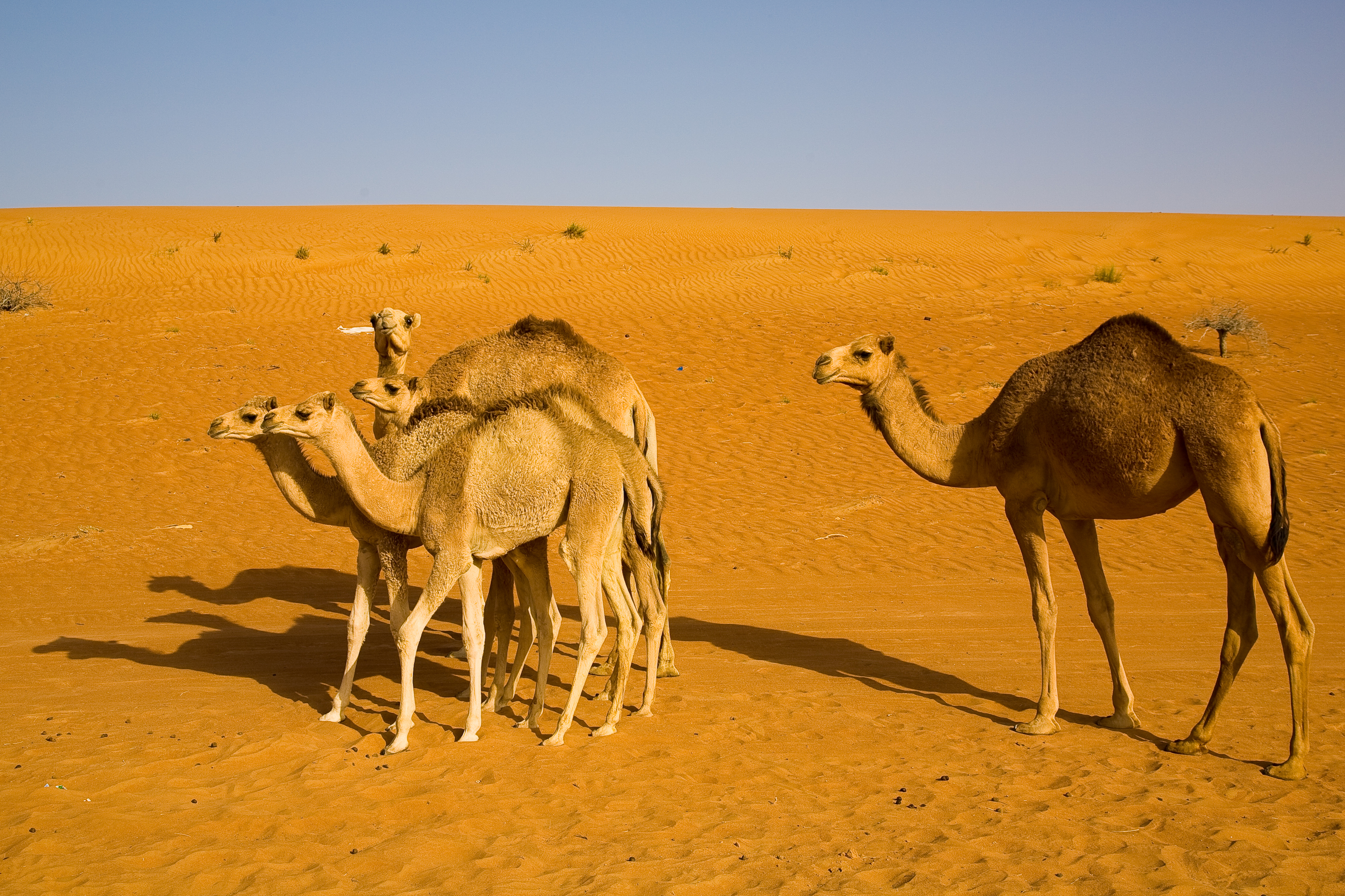 Camels in the Wahiba Sands, Oman